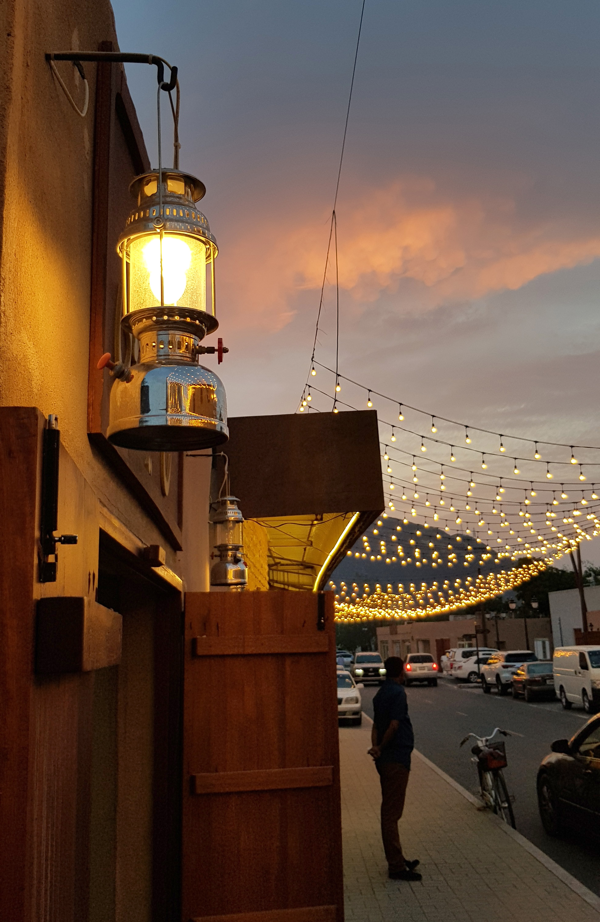 A traditional one